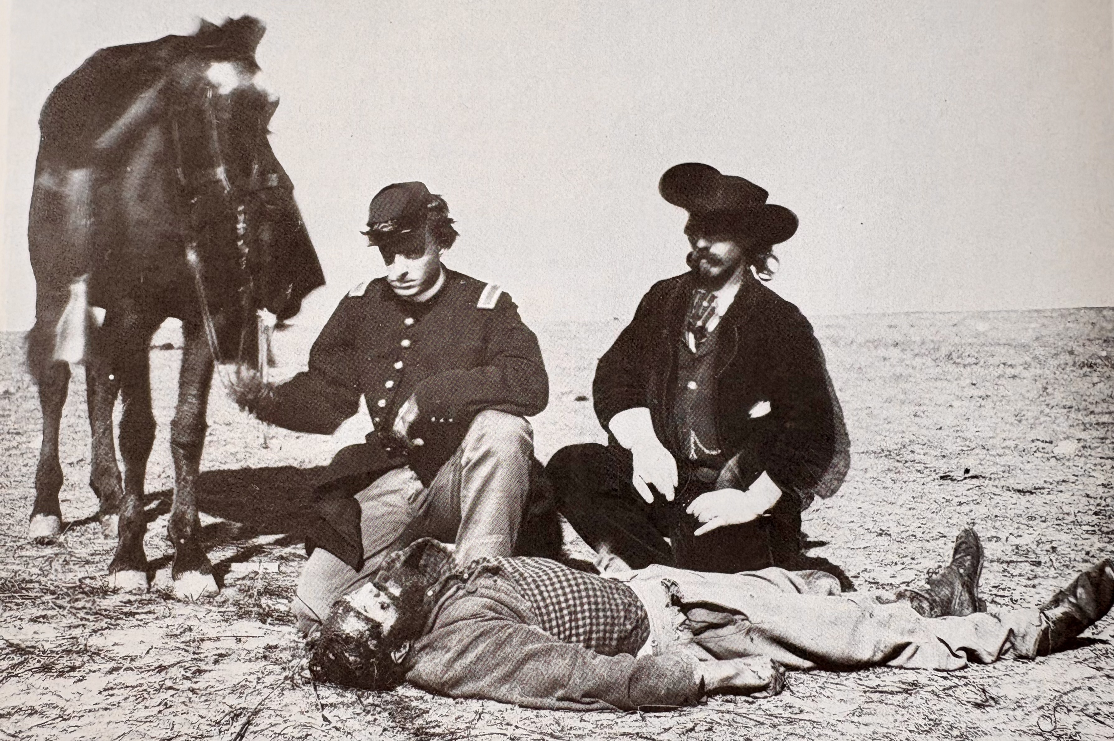 Ralph Morrison, a hunter killed & scalped by Cheyenne near Ft Dodge Lieutenant Read, 3rd Infantry, and John O. Auston, chief of the scouts, crouch near a scalped Ralph Morrison near Fort Dodge, Kansas. Morrison was scalped by a Native American (Cheyenne) war party. John Auston wears gloves and a wide-brimmed hat. A saddled horse stands nearby.